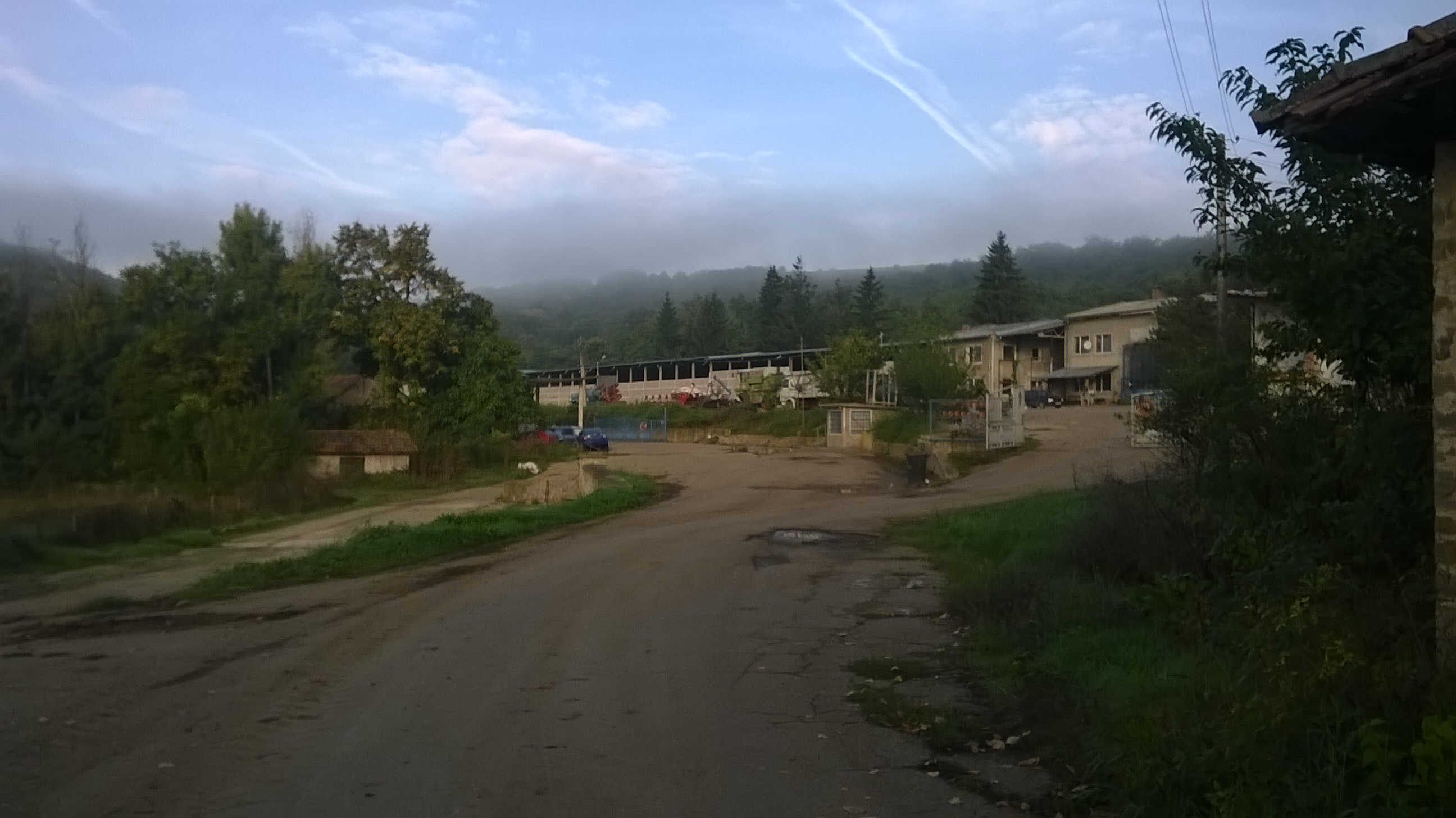 Photo taken 2015.